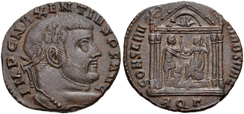 Maxentius. AD 307-312. Æ Follis (24mm, 5.71 g, 6h). Aquileia mint, 3rd officina. Struck AD 307. IMP C MAXENTIUS PF AUG, Laureate head right CONSERV URBS SUAE, Roma seated left on shield within tetrastyle temple, presenting globe to emperor standing right, both holding scepters; seated captive between them, two seated captives in pediment, Victory acroteria; AQΓ. RIC VI 113.